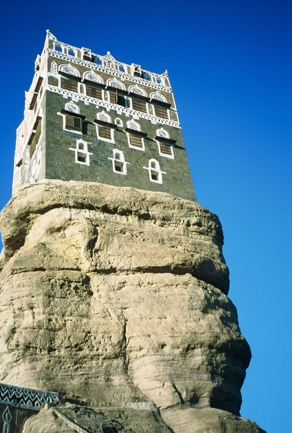 The Imam's Palace: Dar al-Hajar rock house (built c. 1930s) — in Whadi Dhahr, Yemen. Dar al-Hajar, the former residence of Imam Yahya in the Wādī Ẓahr near Sana'a.